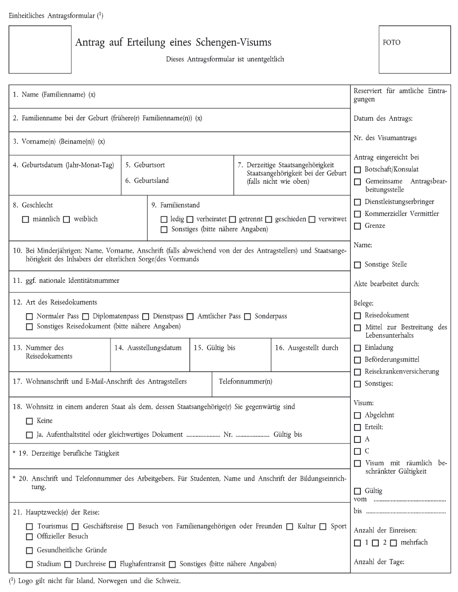 Application form for Schengen Visa in accordance to Regulation (EC) No. 810/2009 (Visa Code), OJ L 243, 15.09.2009, p. 27.